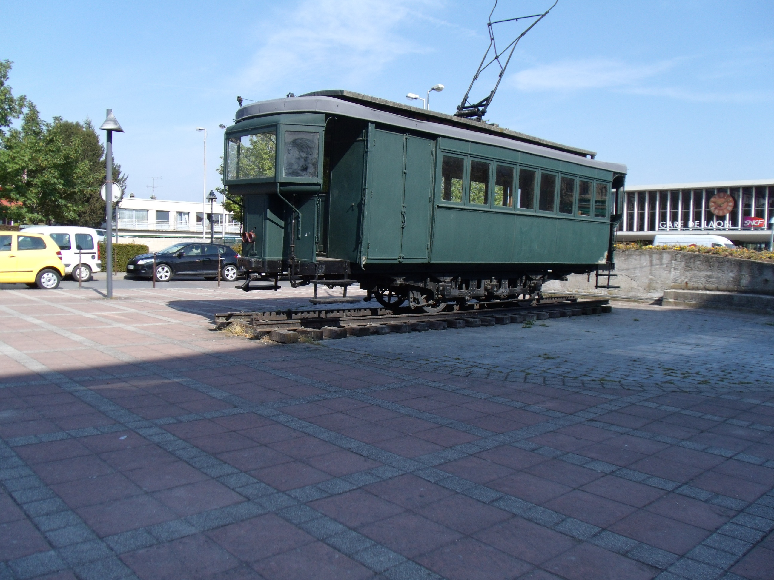 Preserved tram car outside Laon station